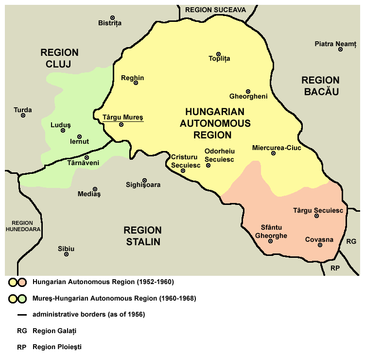 Map of the Hungarian Autonomous Region / Magyar Autonomous Region (1952-1960) and Mureş-Hungarian Autonomous Region / Mureş-Magyar Autonomous Region (1960-1968).